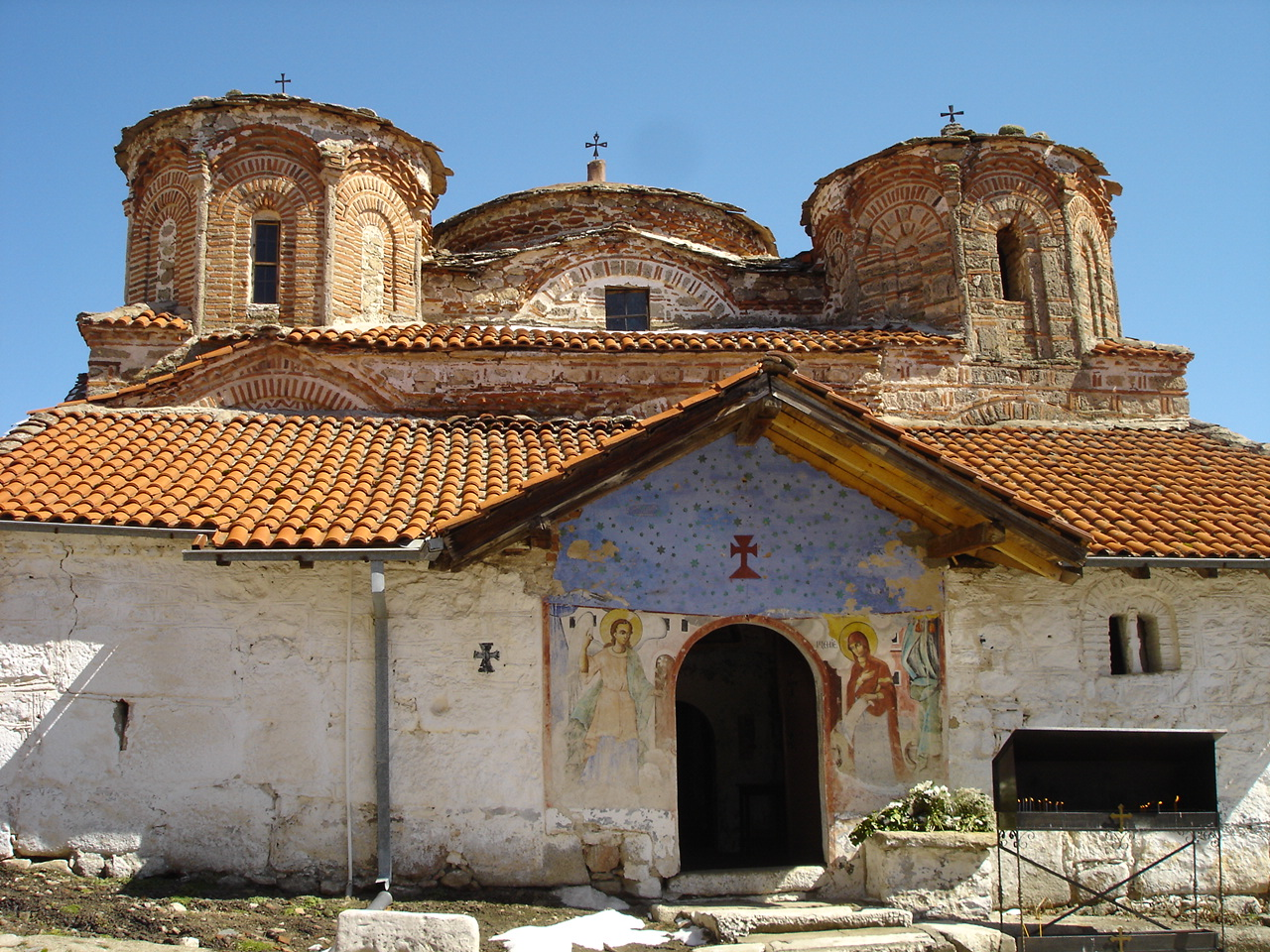 The church in Treskavec monastery, Macedonia